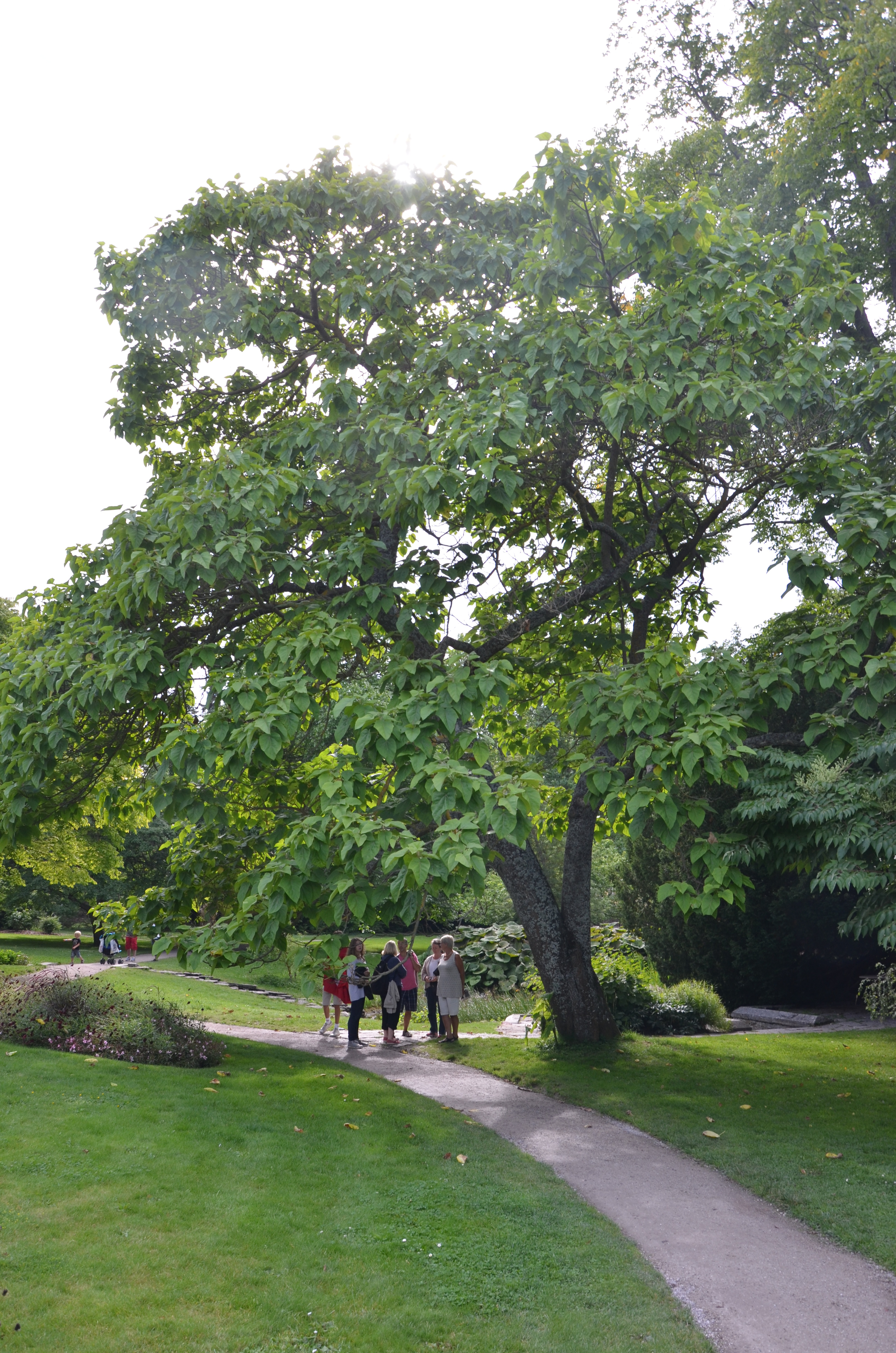 Kejsarträd i DBW:s botaniska trädgård i Visby